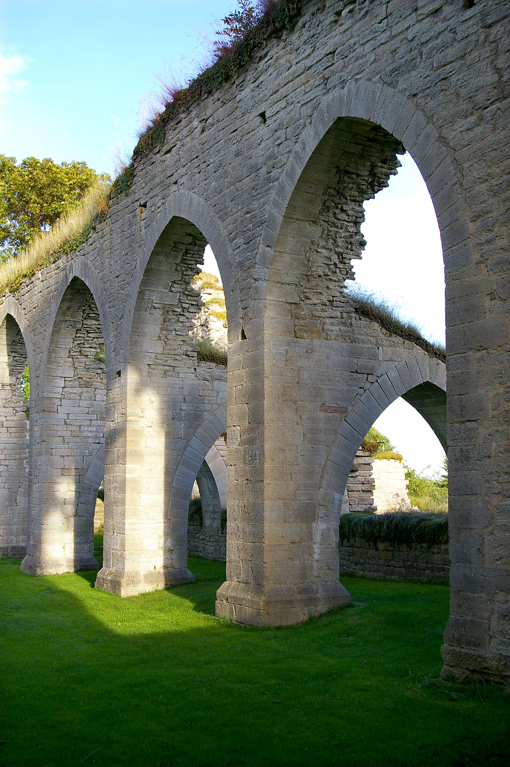 The monastery Alvastra in Sweden.